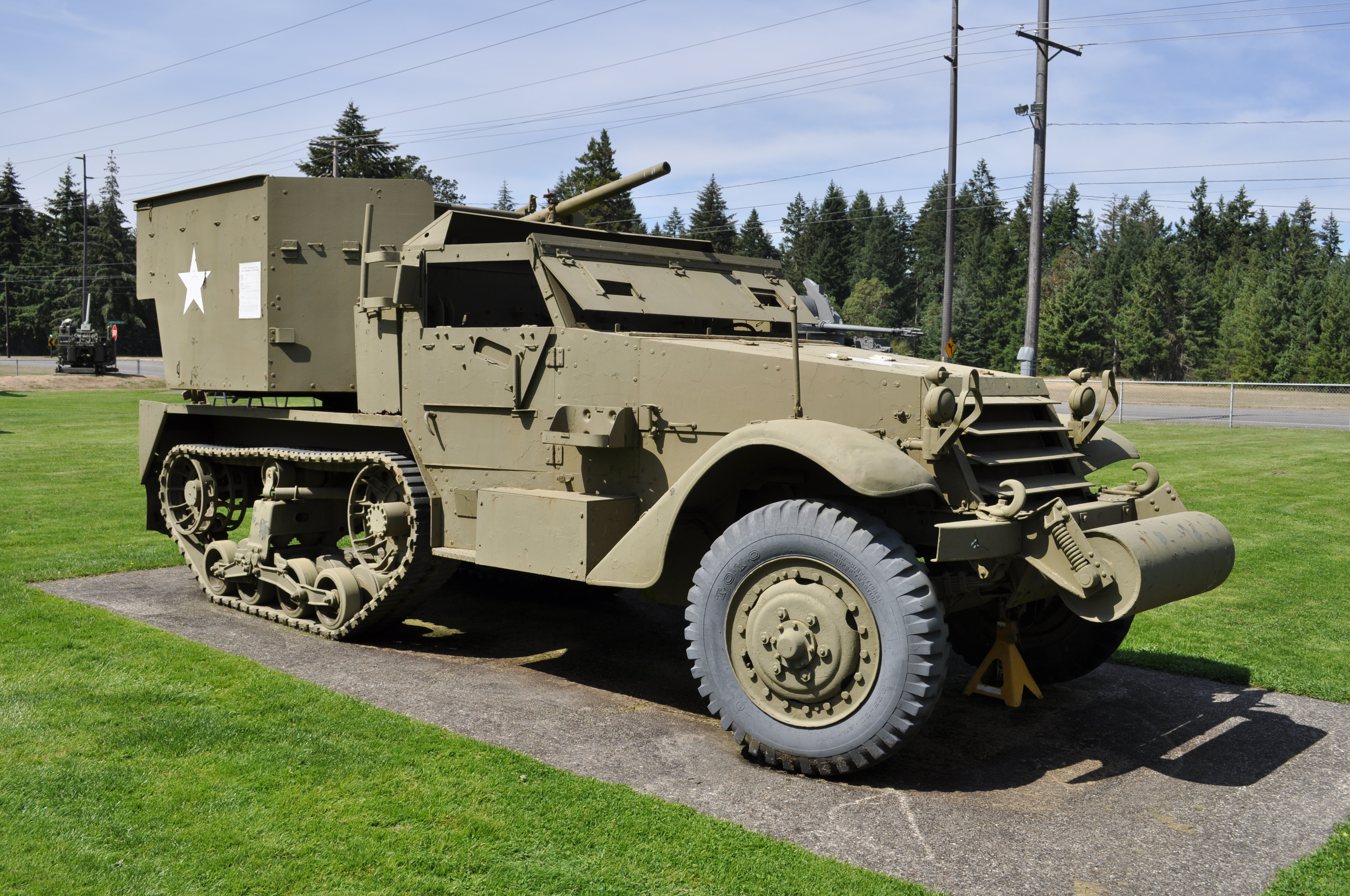 M-15A1 Combination Gun Motor Carriage, Fort Lewis Military Museum, Fort Lewis, Washington, USA.